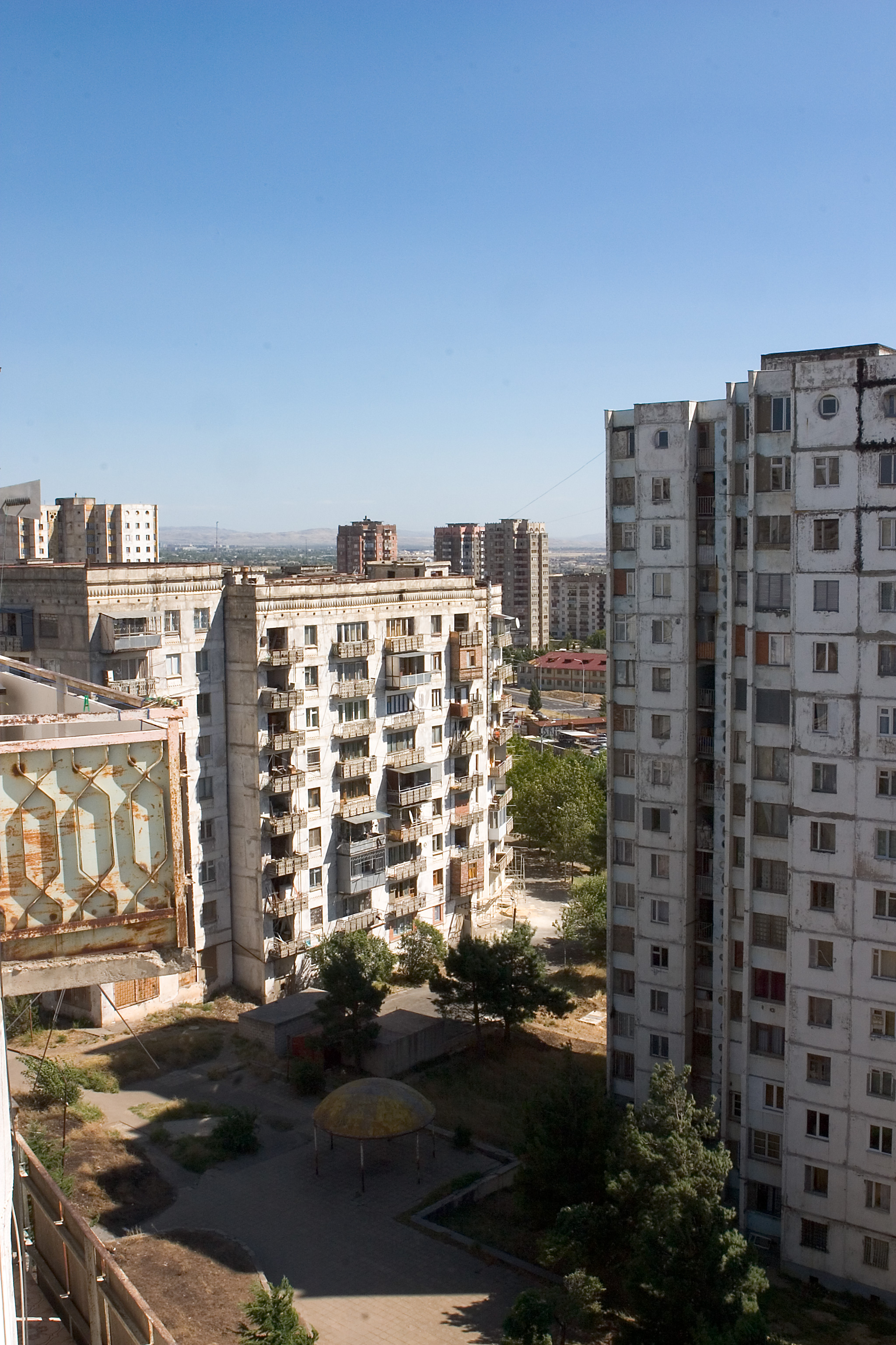 Soviet architecture in Tbilisi